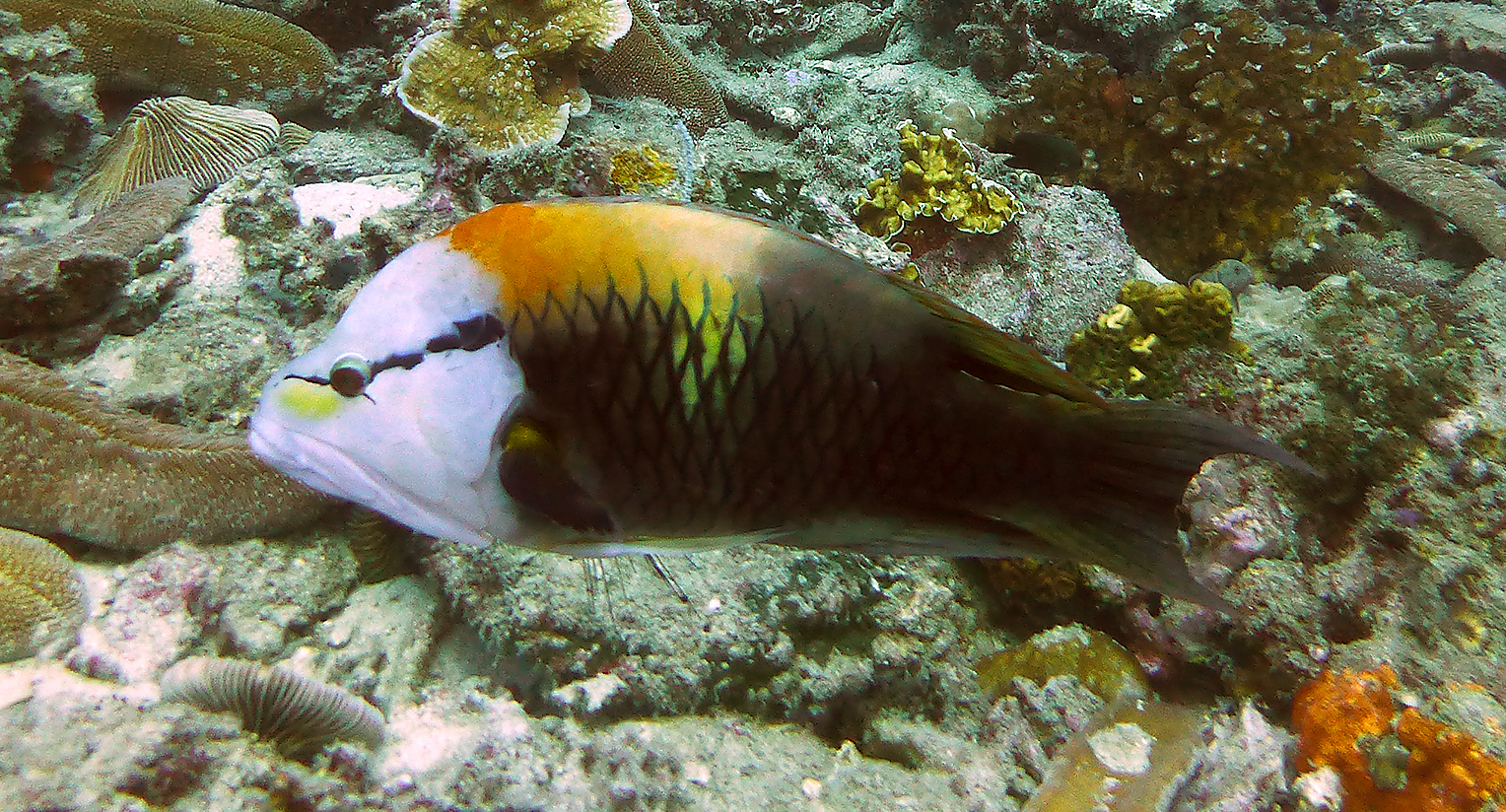 Underwater photographs of plants and animals from diving sites around Ko Tao, Thailand.